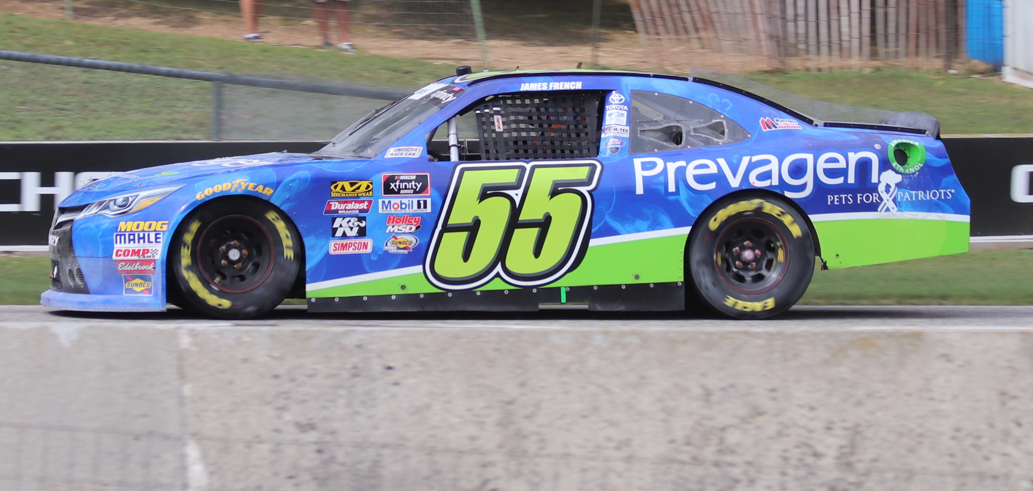 The NASCAR Xfinity Series Toyota Camry of James French racing uphill toward turn 6 during the 2018 Johnsonville 180 at Road America.